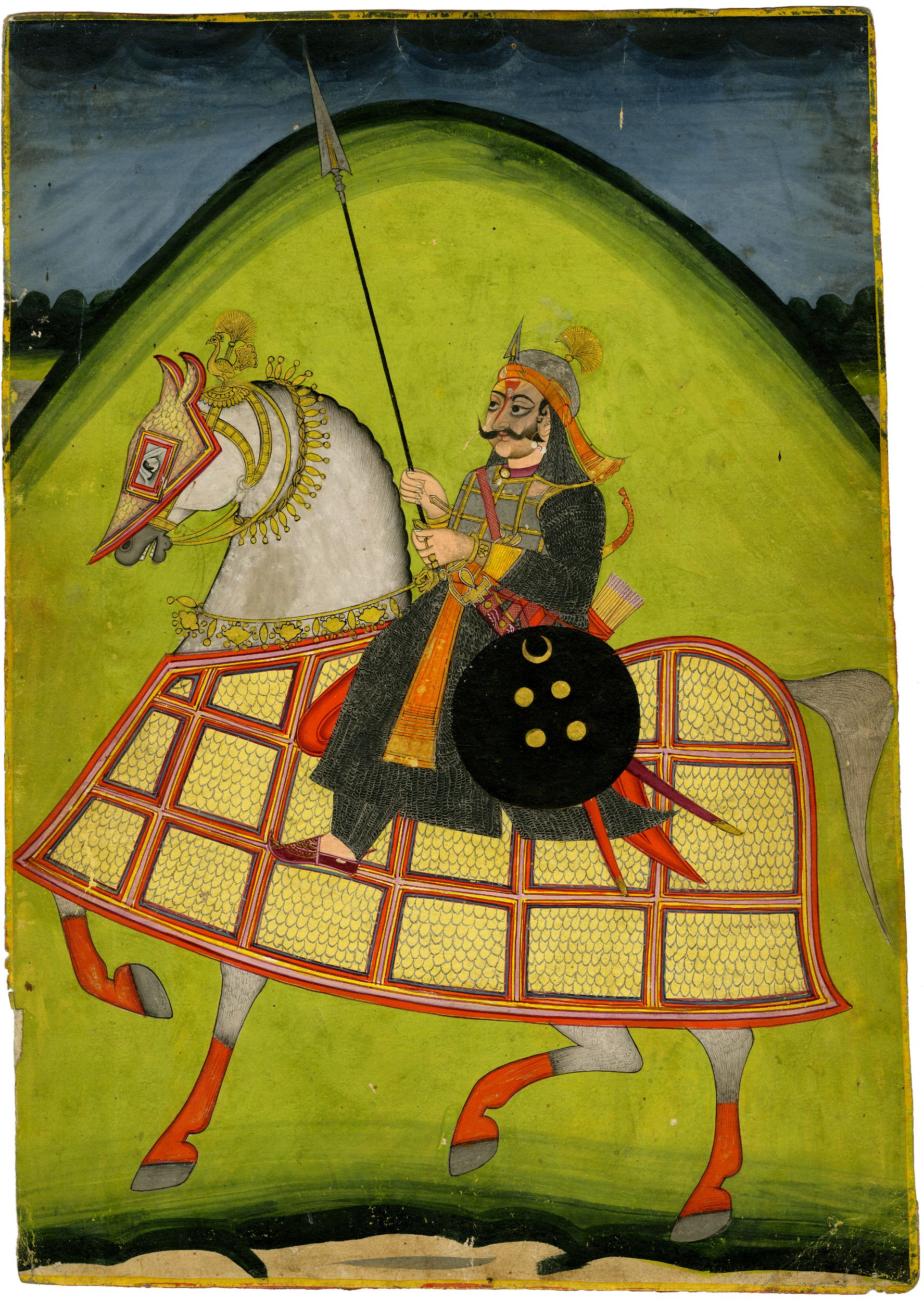 Painting. Rajput warrior on horseback, with caption in Kayathi and Nagari. Gouache on paper. Inscribed.